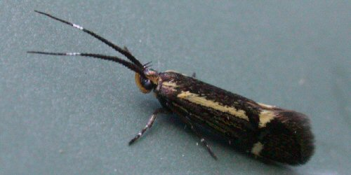 Esperia sulphurella (Fabr.) (Lepidoptera: Oecophoridae) Photographed & uploaded by Keith Edkins, Cambridge, UK.